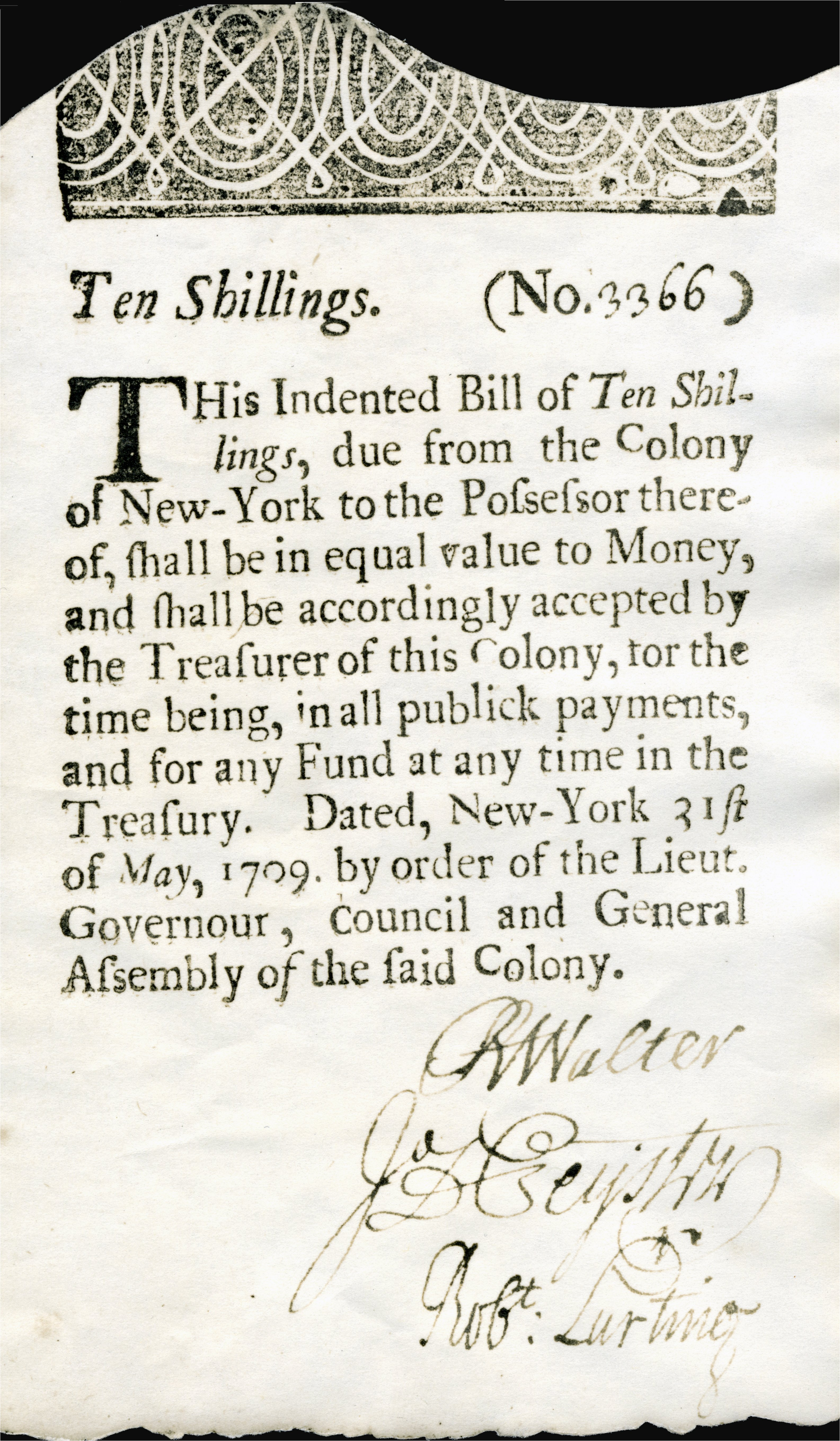 10s Colonial currency from the Colony of New York. Signed by Robert Walter, Johannes DePeyster, and Robert Lurting. Printed by William Bradford.31 May 1709 was the first issue of Colonial currency from the Colony of New York(Friedberg Colonial ref# NY-2).